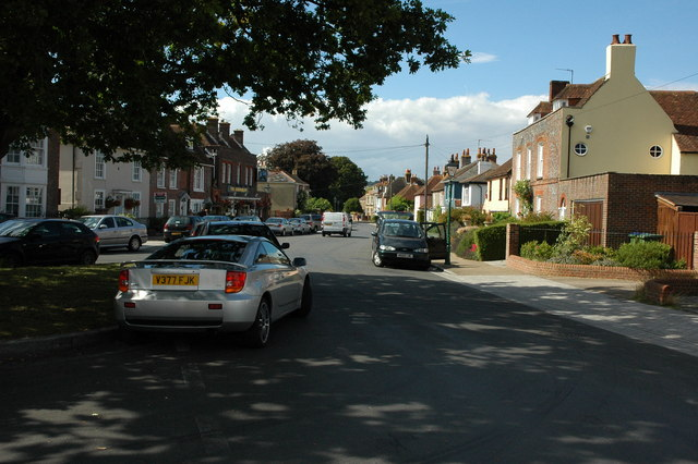 Portchester Centre of the village of Portchester.